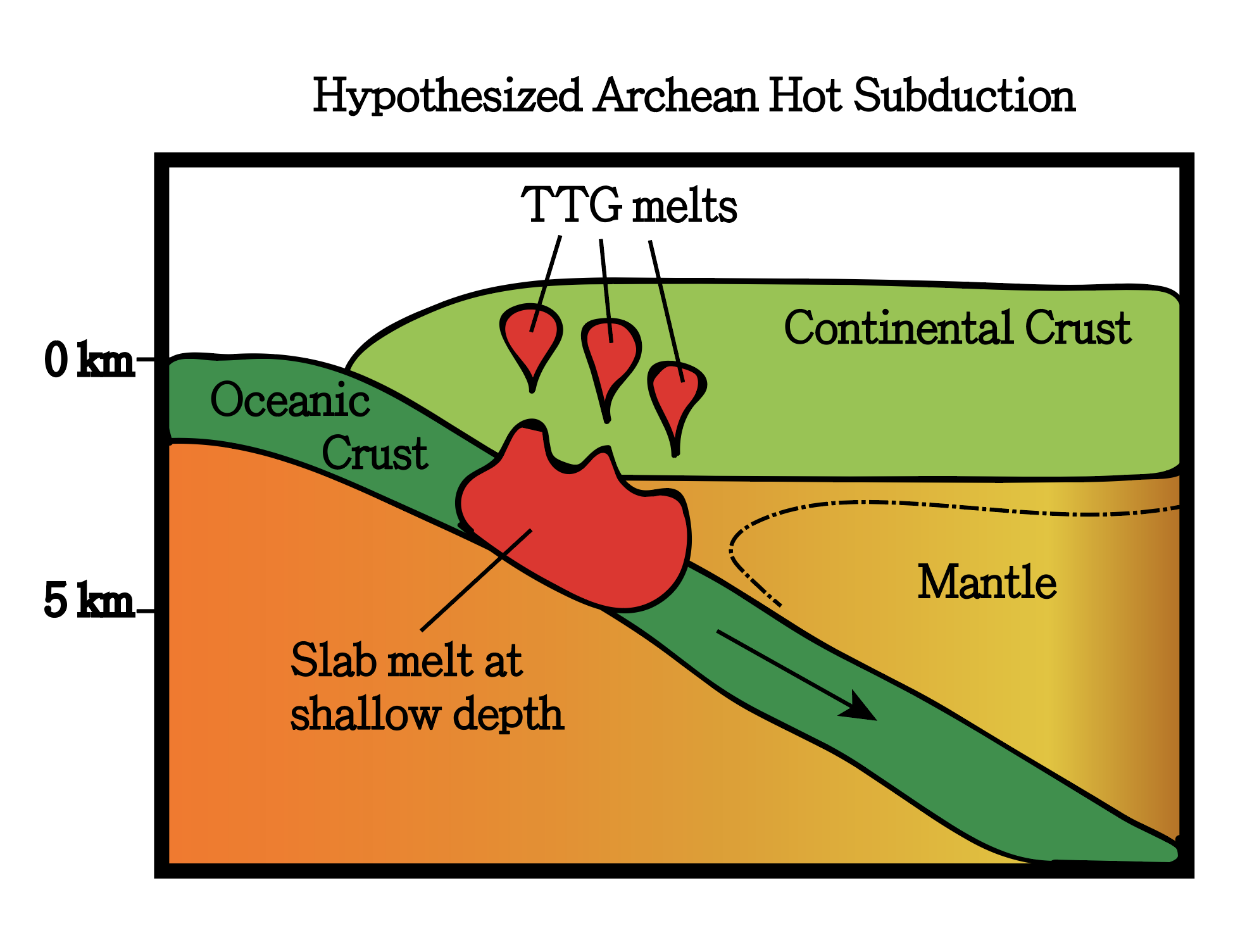 hot subduction